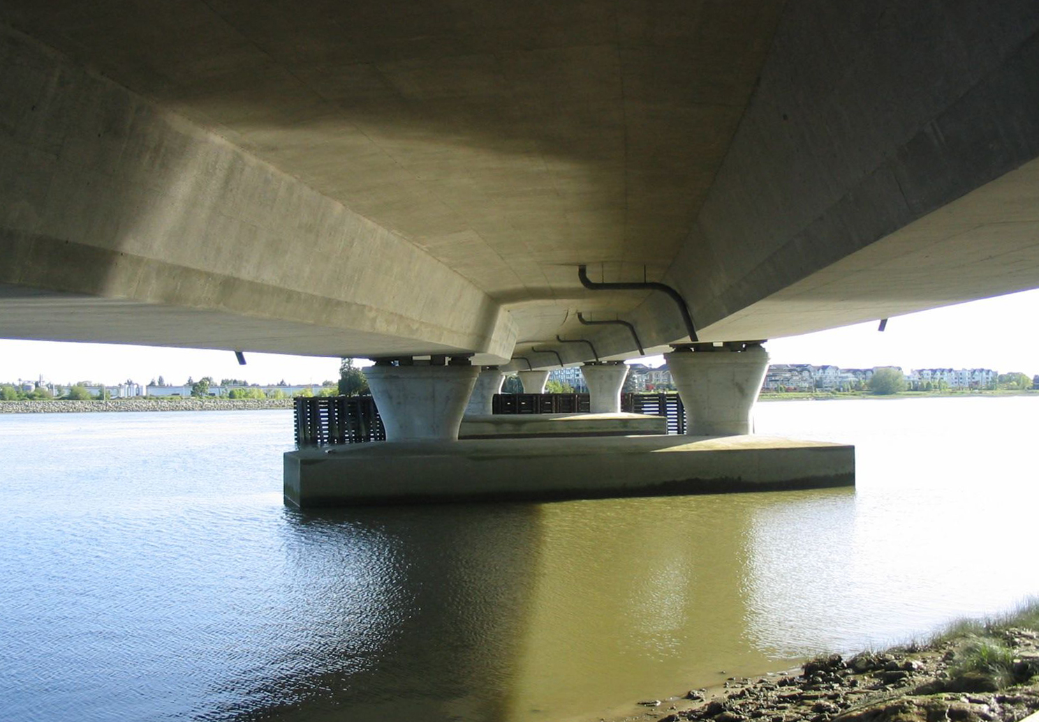 Photo by CherrybombNo. 2 Road Bridge in Richmond, British Columbia